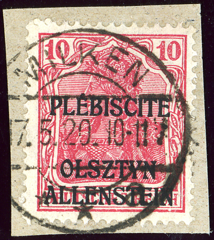 Overprint Plébiscite OLSZTYN - ALLENSTEIN on 10 Pfg, cancelled at MILKEN (Prussia) on 17-5-1920.